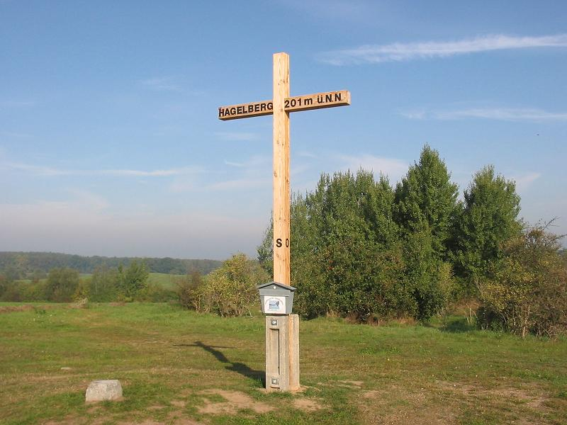 Hagelberg (peak) in Hagelberg. The village Hagelberg is a part of the town Belzig in the district Potsdam Mittelmark, state Brandenburg, Germany. The village appertains to the nature park Naturpark Hoher Fläming. The eponymous Hagelberg (hill) is with a height of total 200 meters the highest elevation in the Fläming. There are two monuments commemorating to the prussian victory in the „Battle nearby Hagelberg“ in 1813 against Napoleon.